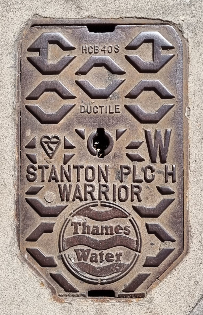 A Stanton Ironworks pipe access cover installed into a London pavement by Thames Water, circa mid-1980s.